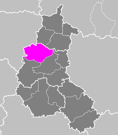 Maps of arrondissements and cantons of France: Arrondissement de Reims.PNG